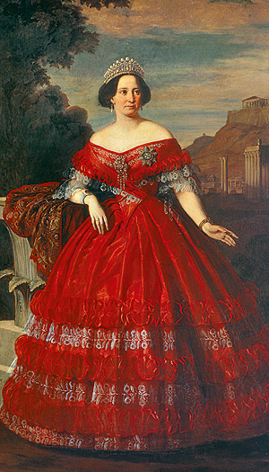 Amalia of Oldenburg, queen of Greece